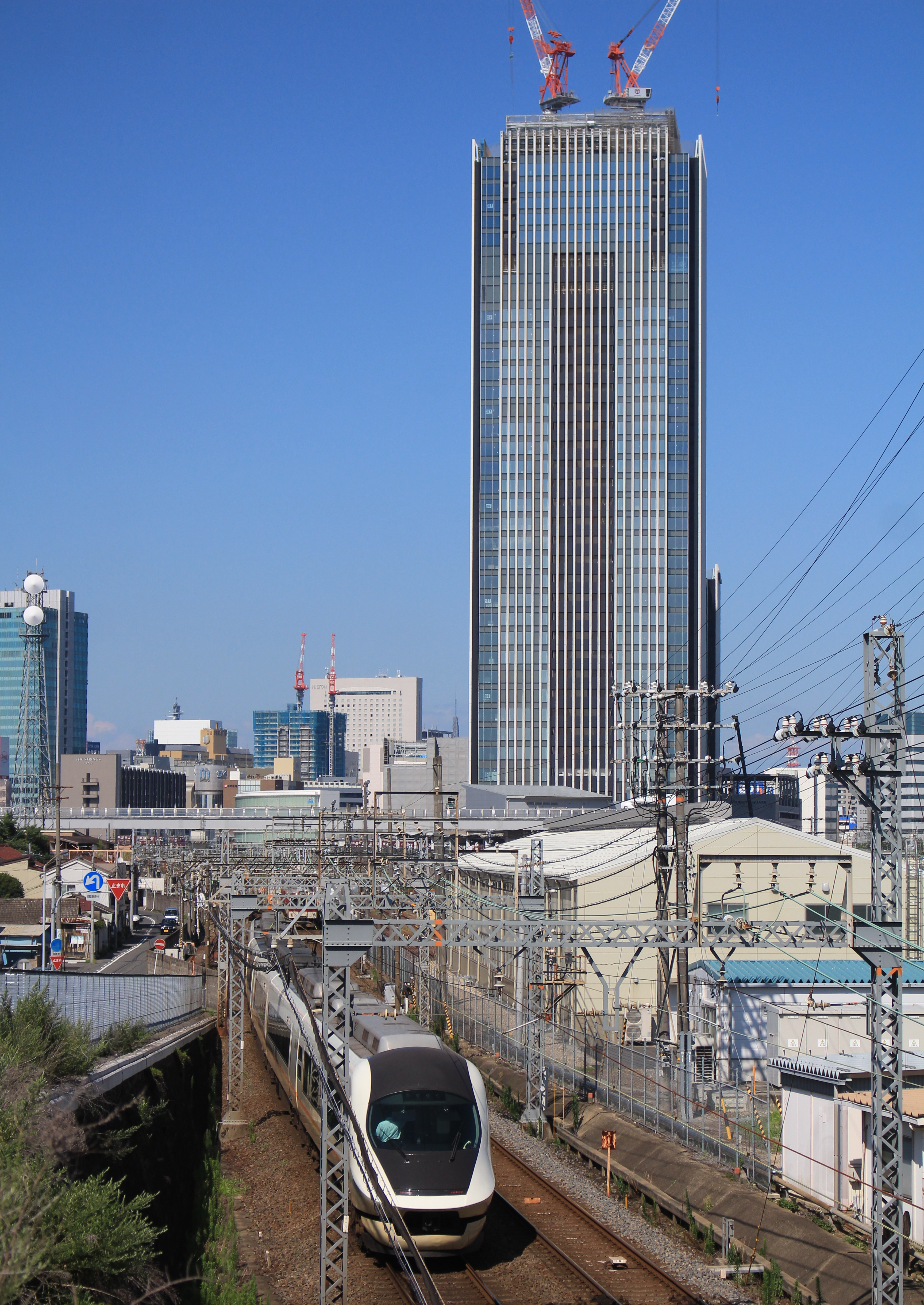 Train of Kintetsu 21020 series on Kintetsu Nagoya Line and Global Gate in Nakamura-ku, Nagoya, Aichi prefecture, Japan.